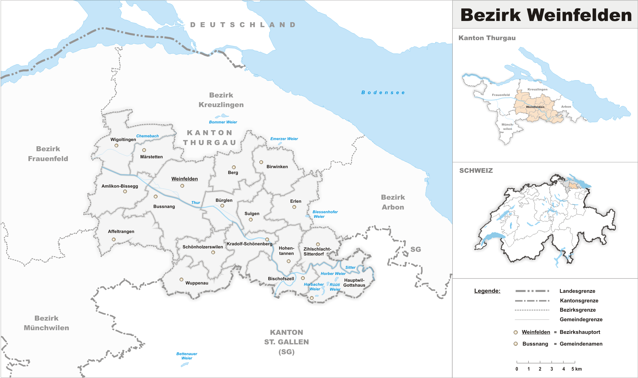 Municipalities in the district of Weinfelden